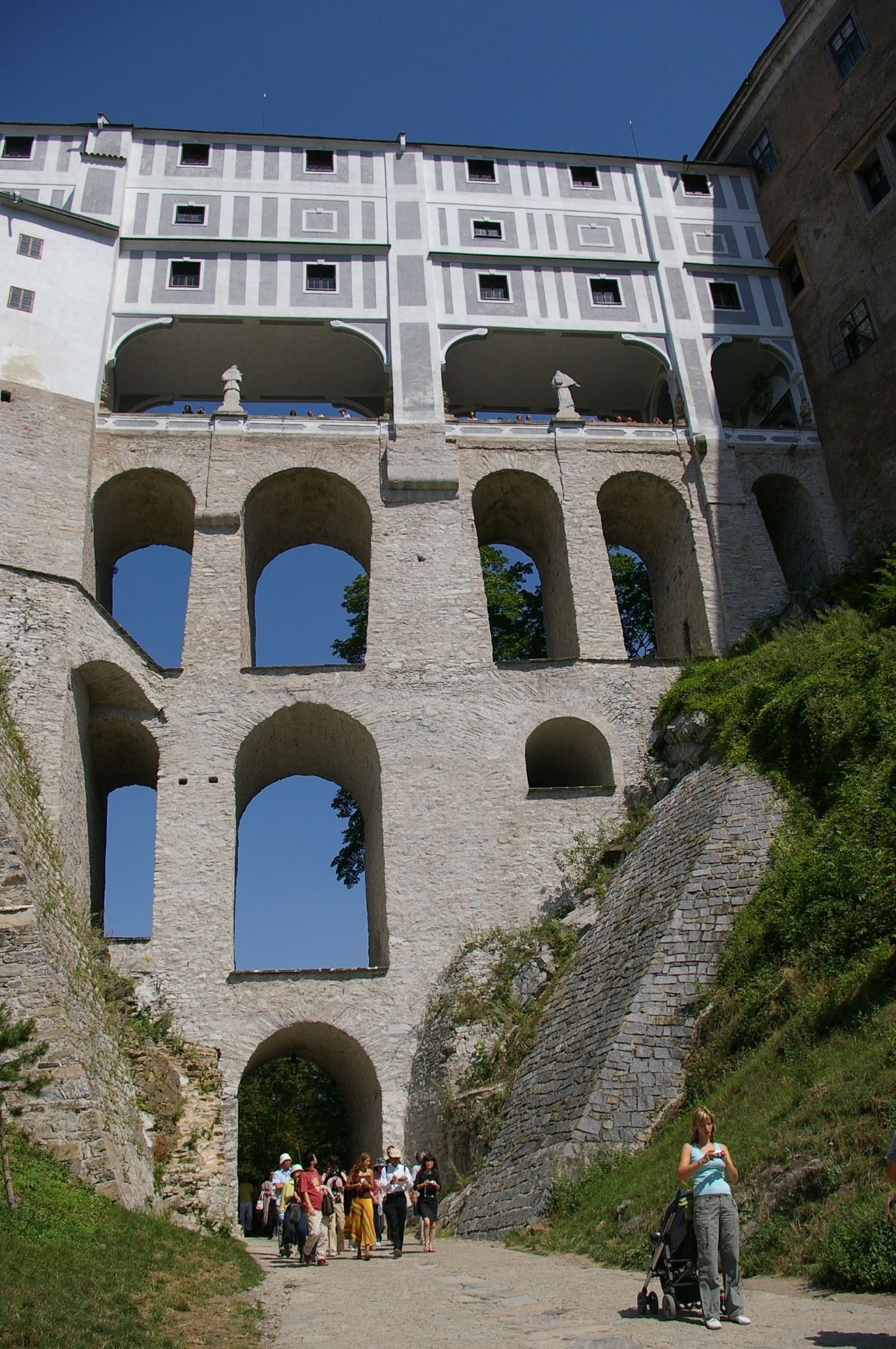 Plášťový most in Český Krumlov